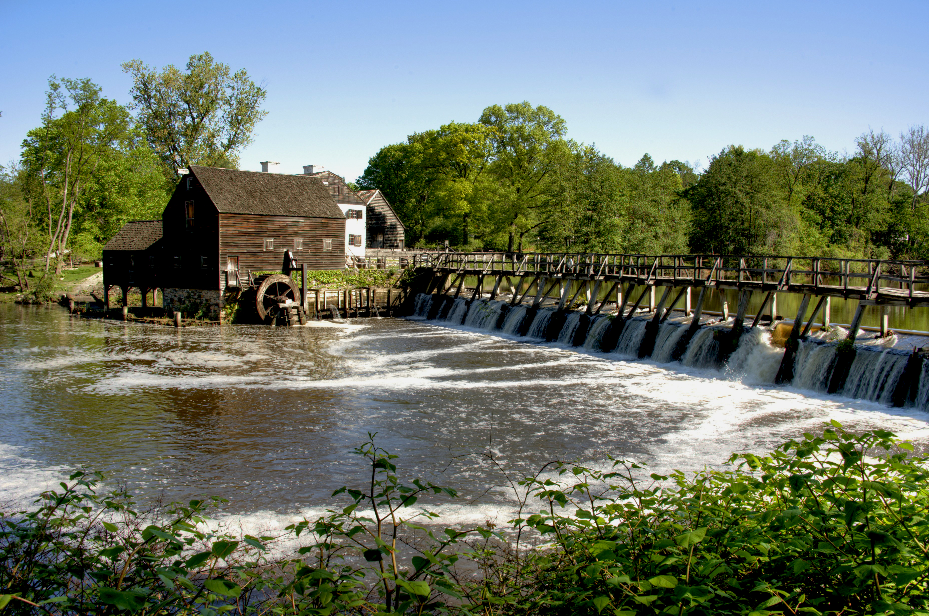 The Philipses' aim was to make the manor a center for agricultural, at which they were successful. They also saw an ethnically diverse group of tenant farmers move in in the 18th century, coming from Great Britain, the Netherlands, France, Germany, and even within North America. The African slaves were also diverse: 23 different African cultures—all coming from Kongo-Angola—were represented on the site. By the beginning of the American Revolution, the population was about 1,000, up from 200 at the time of Frederick I's death.